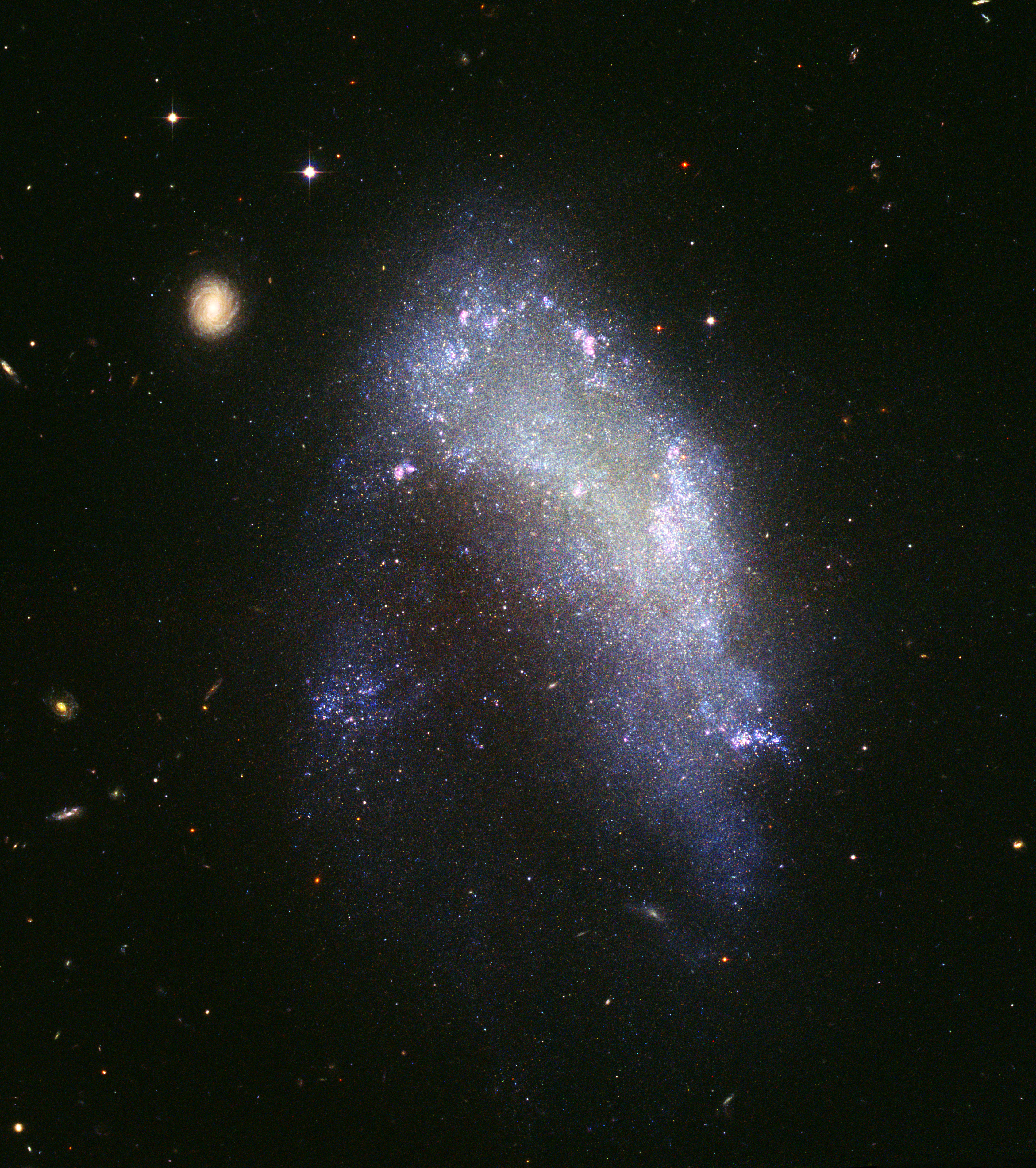 The irregular galaxy NGC 1427A will not survive long as an identifiable galaxy, passing through the Fornax cluster at nearly 600 kilometers per second (400 miles per second). Galaxy clusters, like the Fornax cluster, contain hundreds or even thousands of individual galaxies. Within the Fornax cluster, there is a considerable amount of gas lying between the galaxies. When the gas within NGC 1427A collides with the Fornax gas, it is compressed to the point that it starts to collapse under its own gravity. This leads to formation of the myriad of new stars seen across NGC 1427A, which give the galaxy an overall arrowhead shape that appears to point in the direction of the galaxy's high-velocity motion. The tidal forces of nearby galaxies in the cluster may also play a role in triggering star formation on such a massive scale.